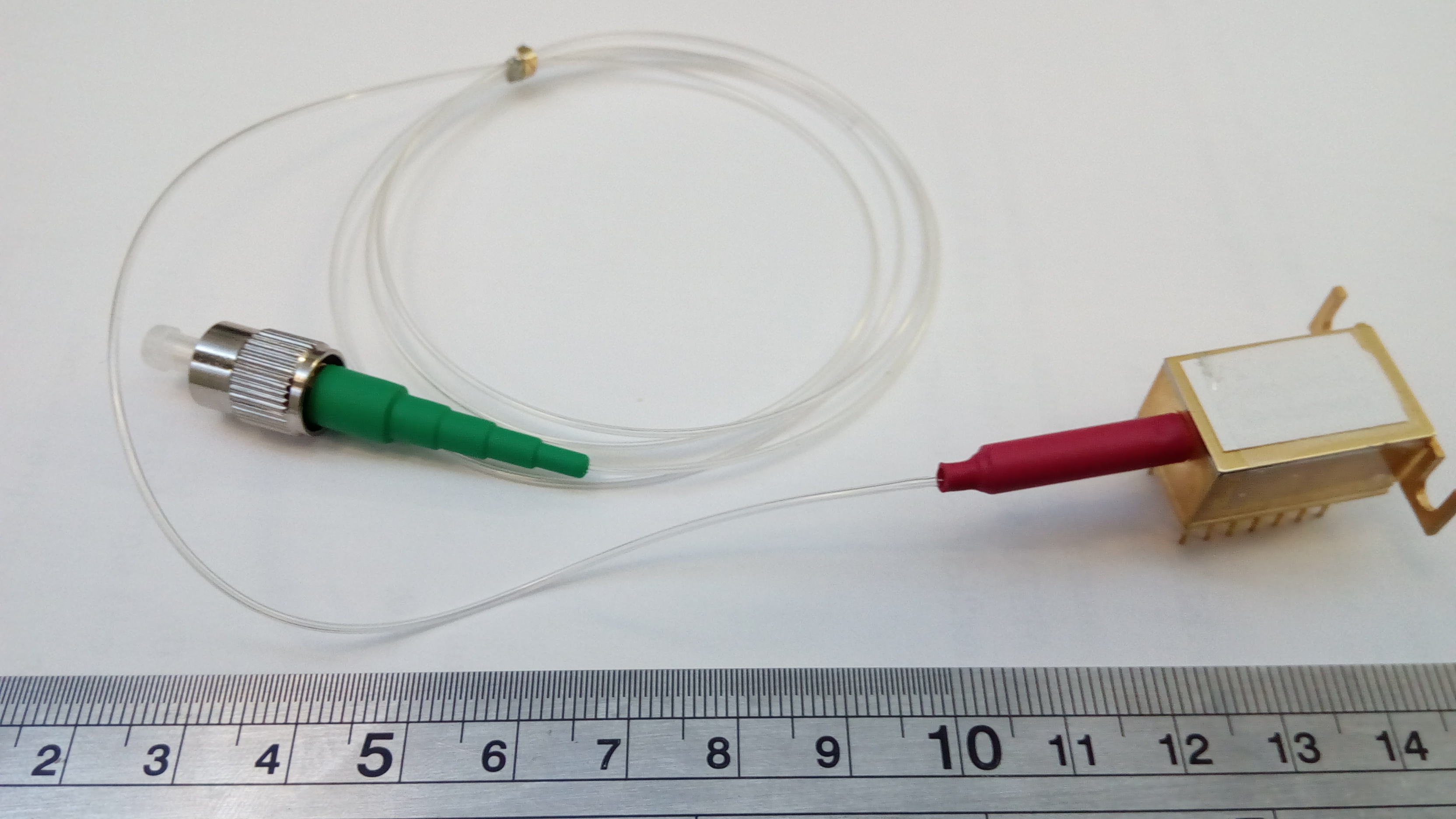 Dual-In-Line package for laser doides, top view